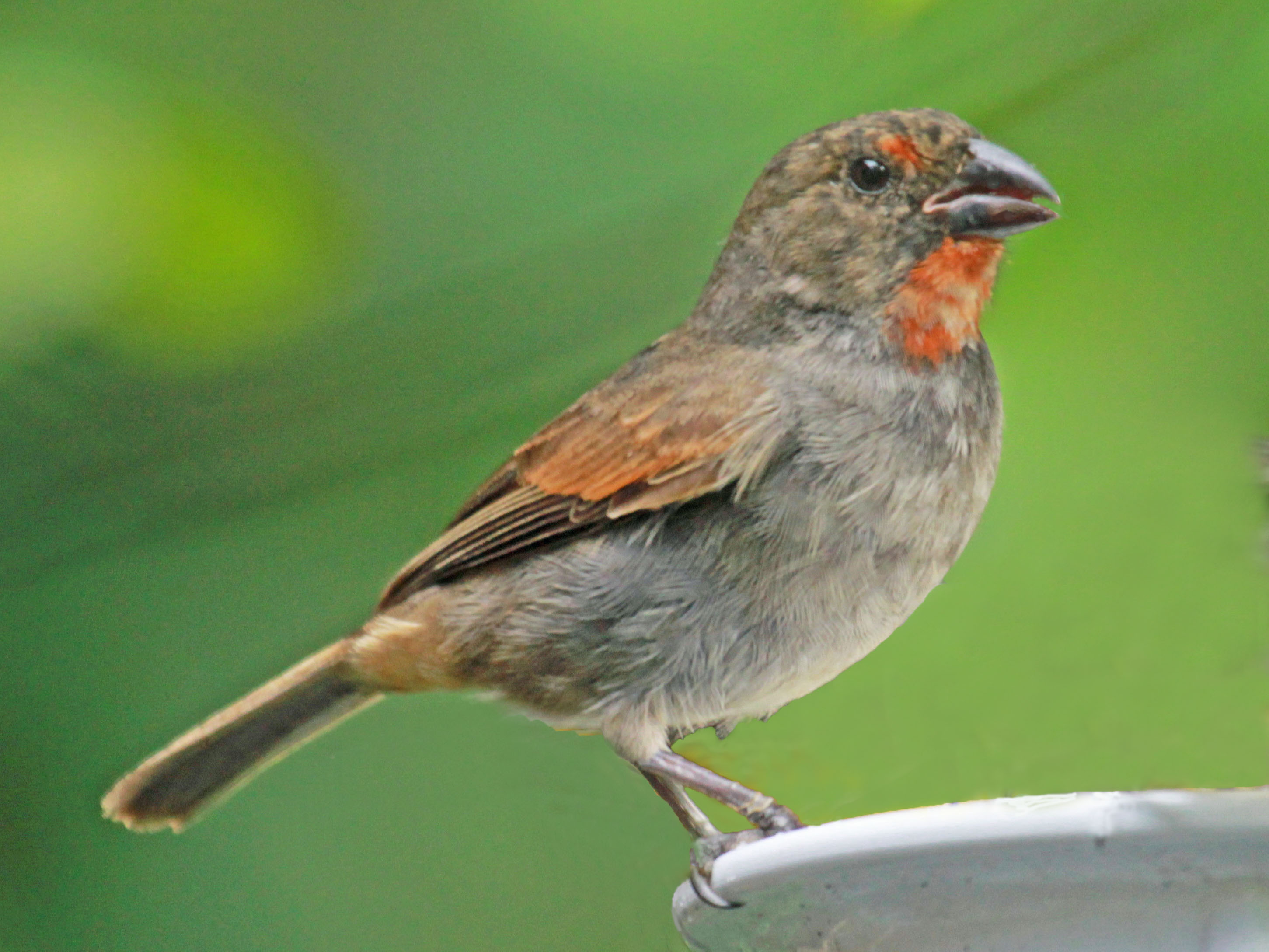 Lesser Antillean Bullfinch (Loxigilla noctis) on St. John Island, US Virgin Islands. Juvenile male.